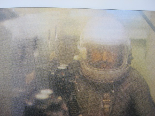 Decompression of the hyperbaric chamber (physiological simulation training pilots and validation of equipment) from the personal, archives by Milorad Dimić MD